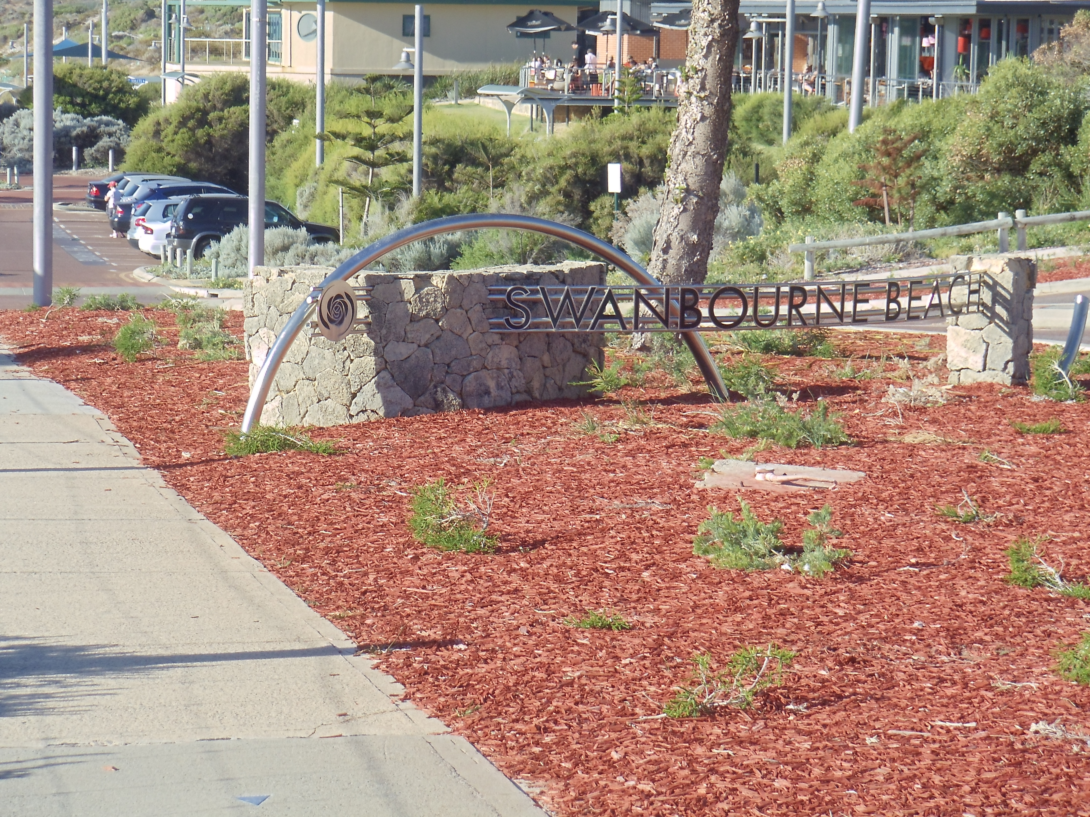 Welcome sign of Swanbourne Beach in Swanbourne, Western Australia.